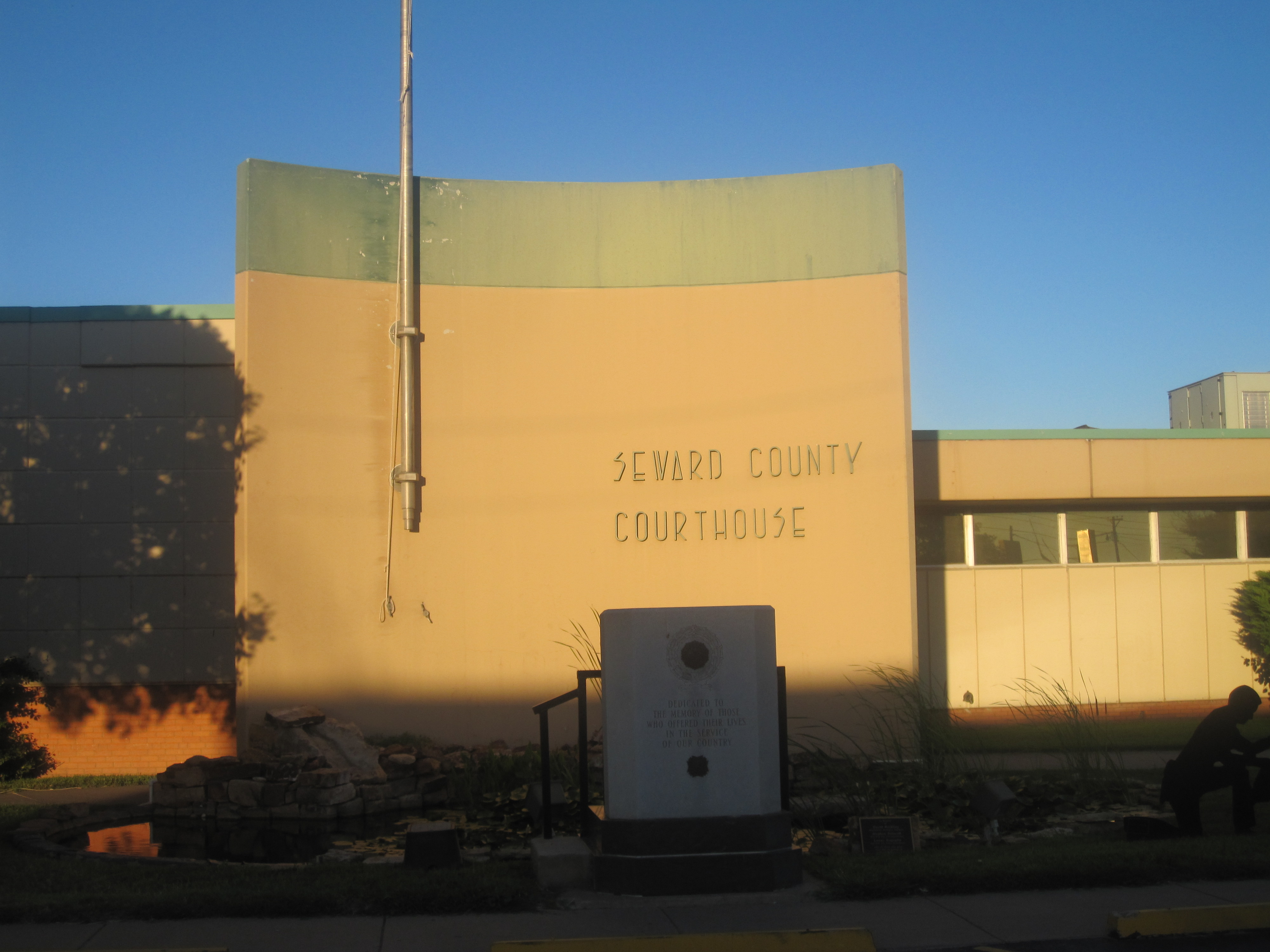 I took photo with Canon camera in Liberal, KS.